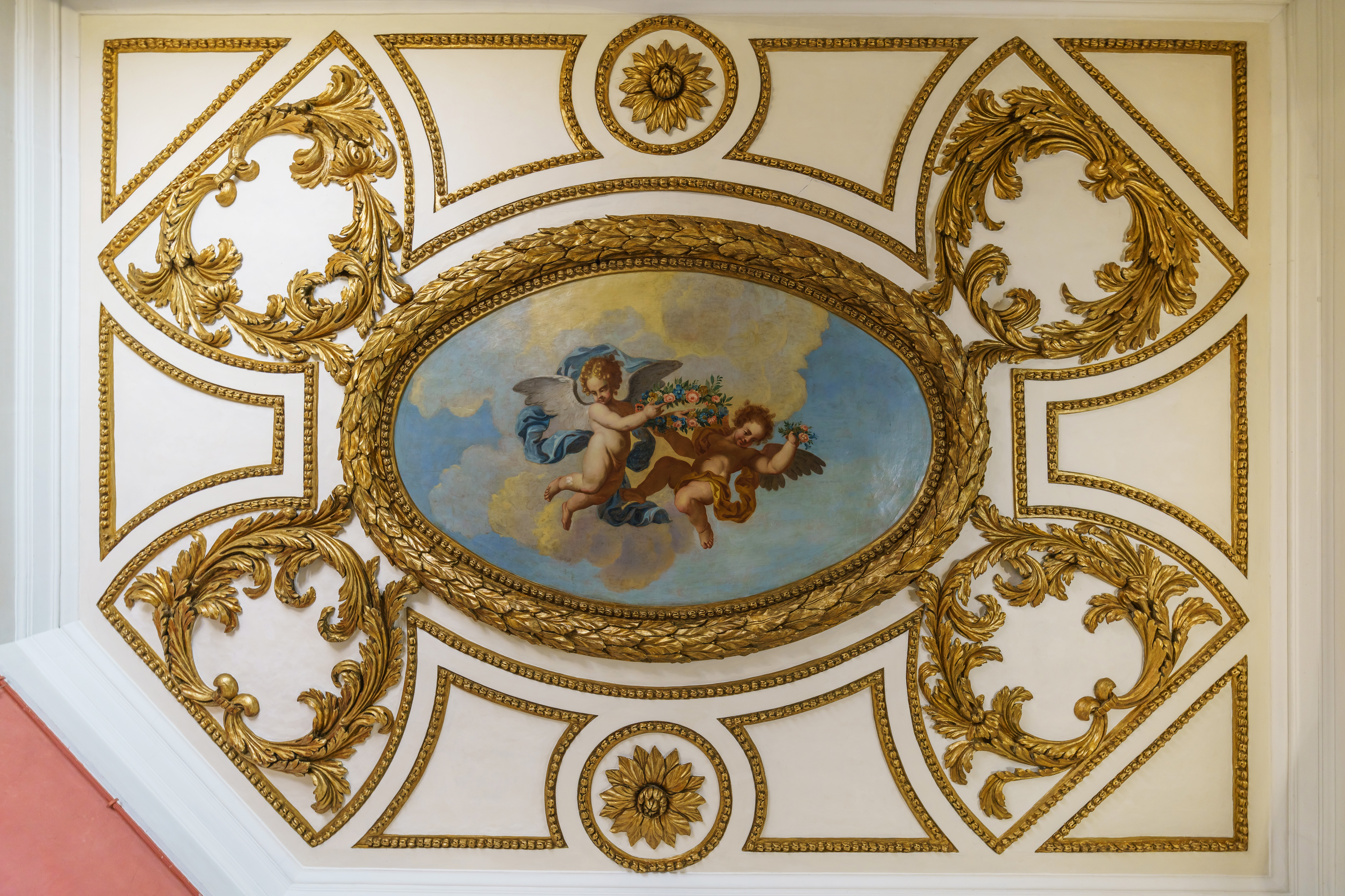 Interior of Caputh Castle near Potsdam, Germany